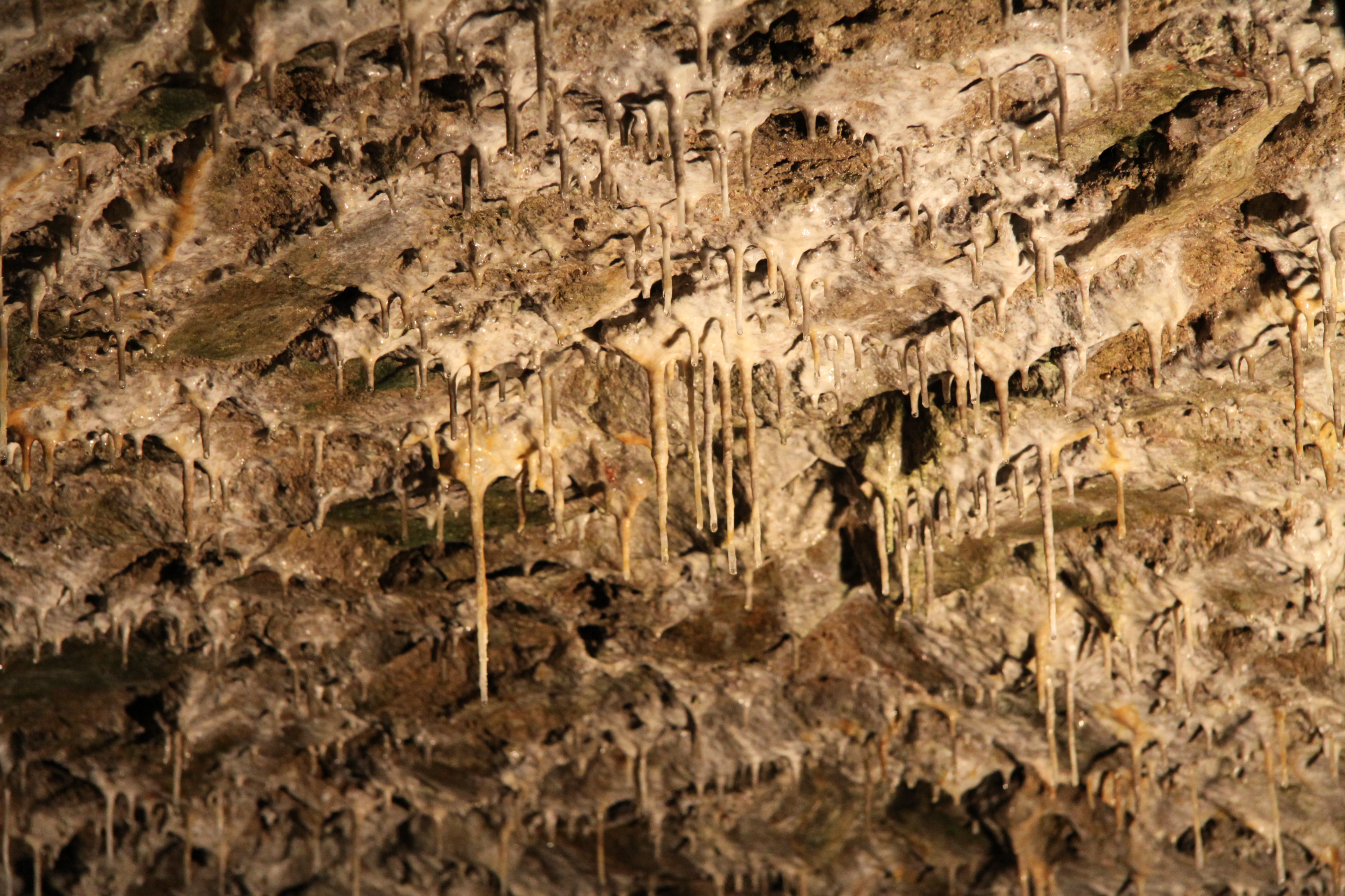 Undeground of Castle Rabí in Klatovy District, Czech Republic. Detail of geological feature called soda straw.